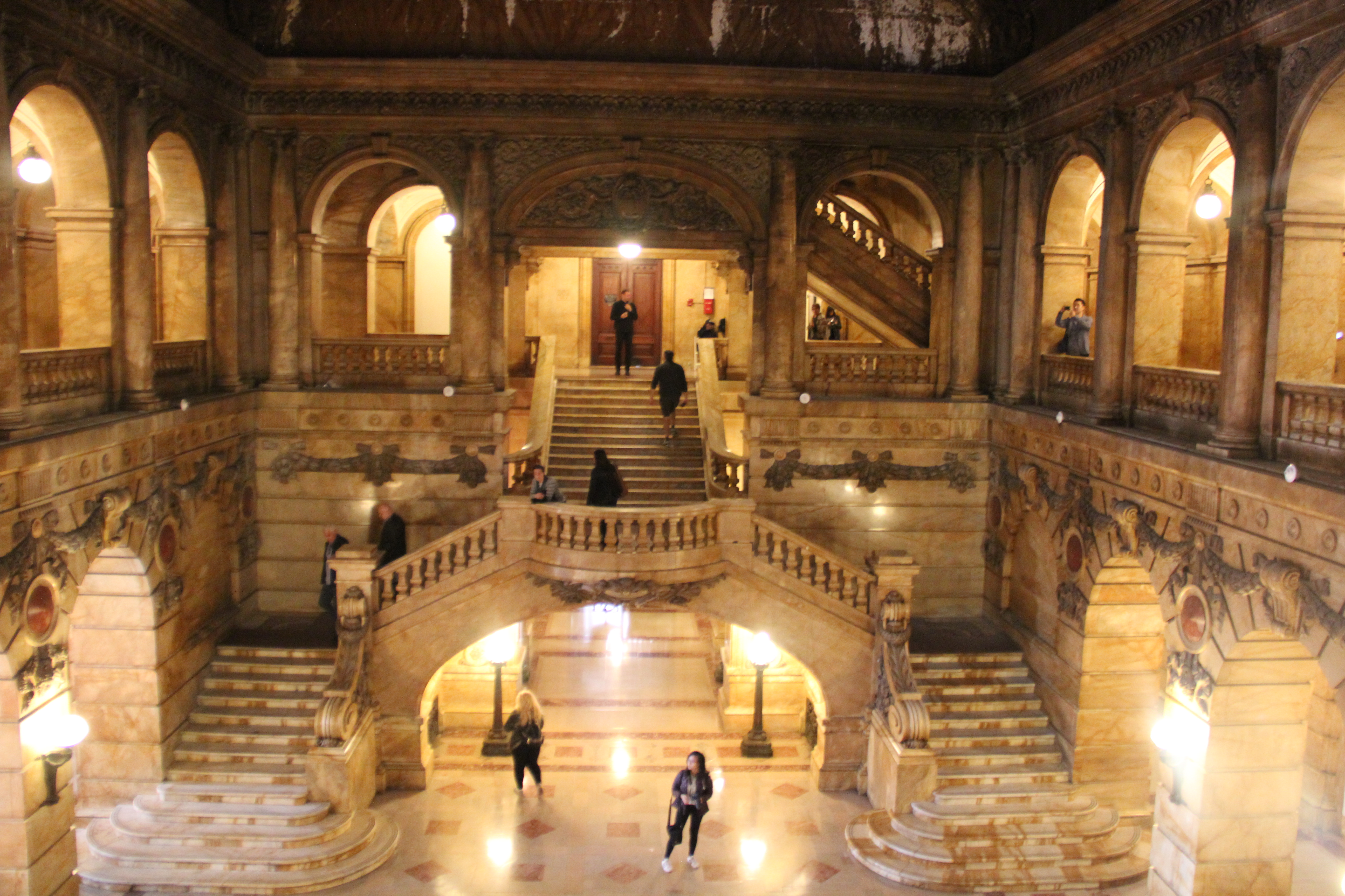 Surrogate's Courthouse/Hall of Records